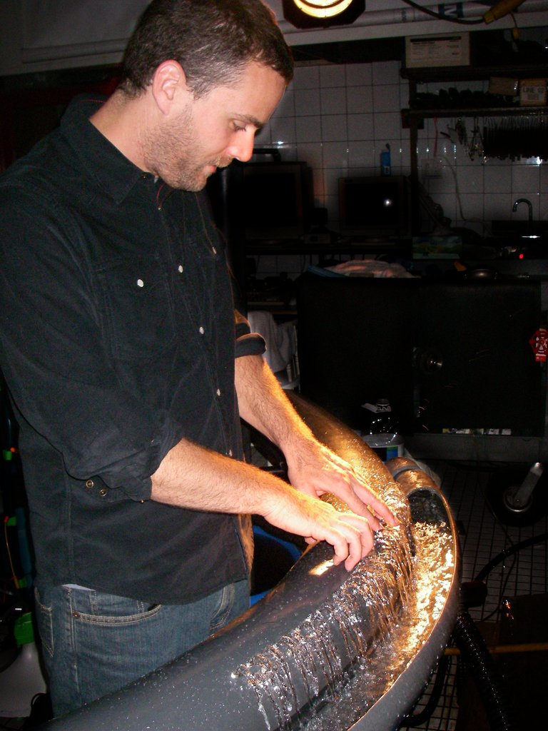 Picture of Noah Mintz playing hydraulophone